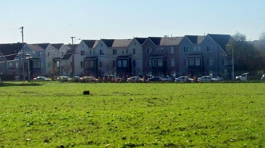 University Village. Located in Albany, California, it is associated with UC Berkeley.